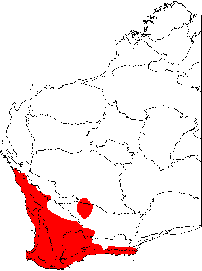 This is a map of Western Australia, showing the distribution of Banksia ser. Dryandra superimposed on a background of the IBRA 6.1 biogeographic regions.